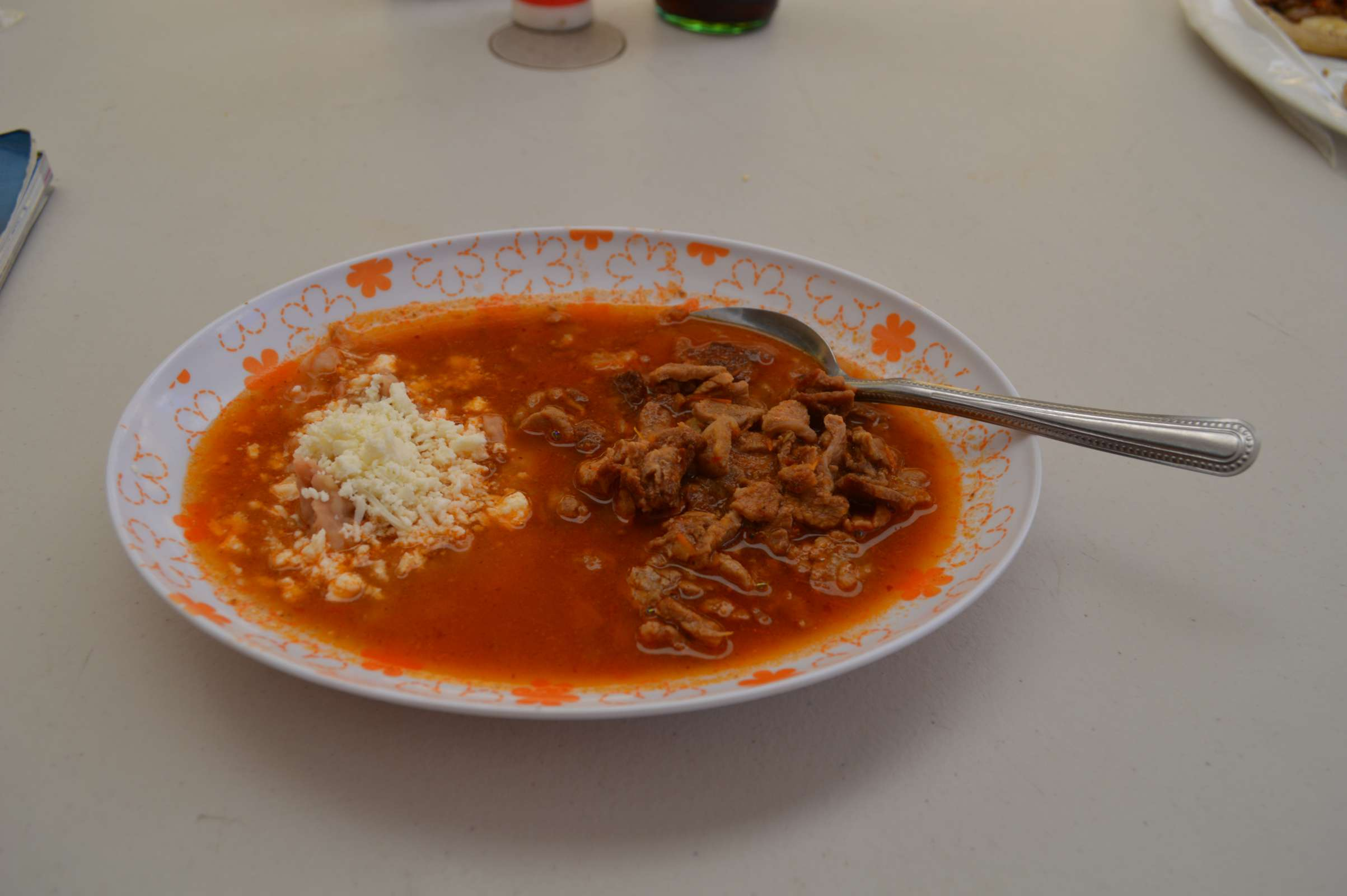 Dish of carne con chile served in the local market in Teuchitlan, Jalsico, Mexico